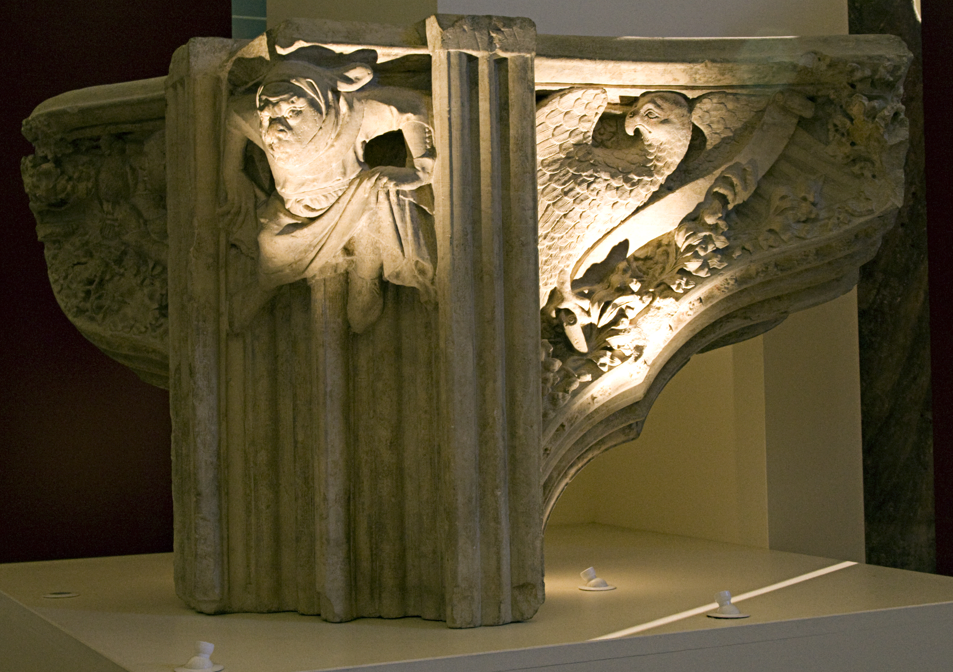 Shrine fragment from William of York's shrine in York Minster. From the York Museums Trust/The Yorkshire Museum. Exhibit tag from temporary exhibit in the British Museum reads: "Shrine Fragment 1330s Stone. This fragment formed part of a corner of Saint William's shrine, which stood in the nave of York Minster until 1541. Saint William was Archbishop of York and became the city's patron saint after his death. The three-storey shrine allowed pilgrims to view the tomb through a seires of arches. It was carved with religious images, everyday scenes and grotesque beast. Only a few, privileged, people were allowed to enter the shrine."